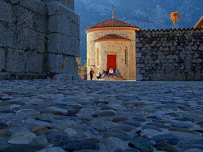 Roman cemetery chapel nearby cathedral Sant'Andrea Apostolo in Venzone / Tagliamento valley / Friuli-Venezia Giulia / Italy / EU. Late afternoon near Venzone's Duomo reveals this cute look on the baptistery.